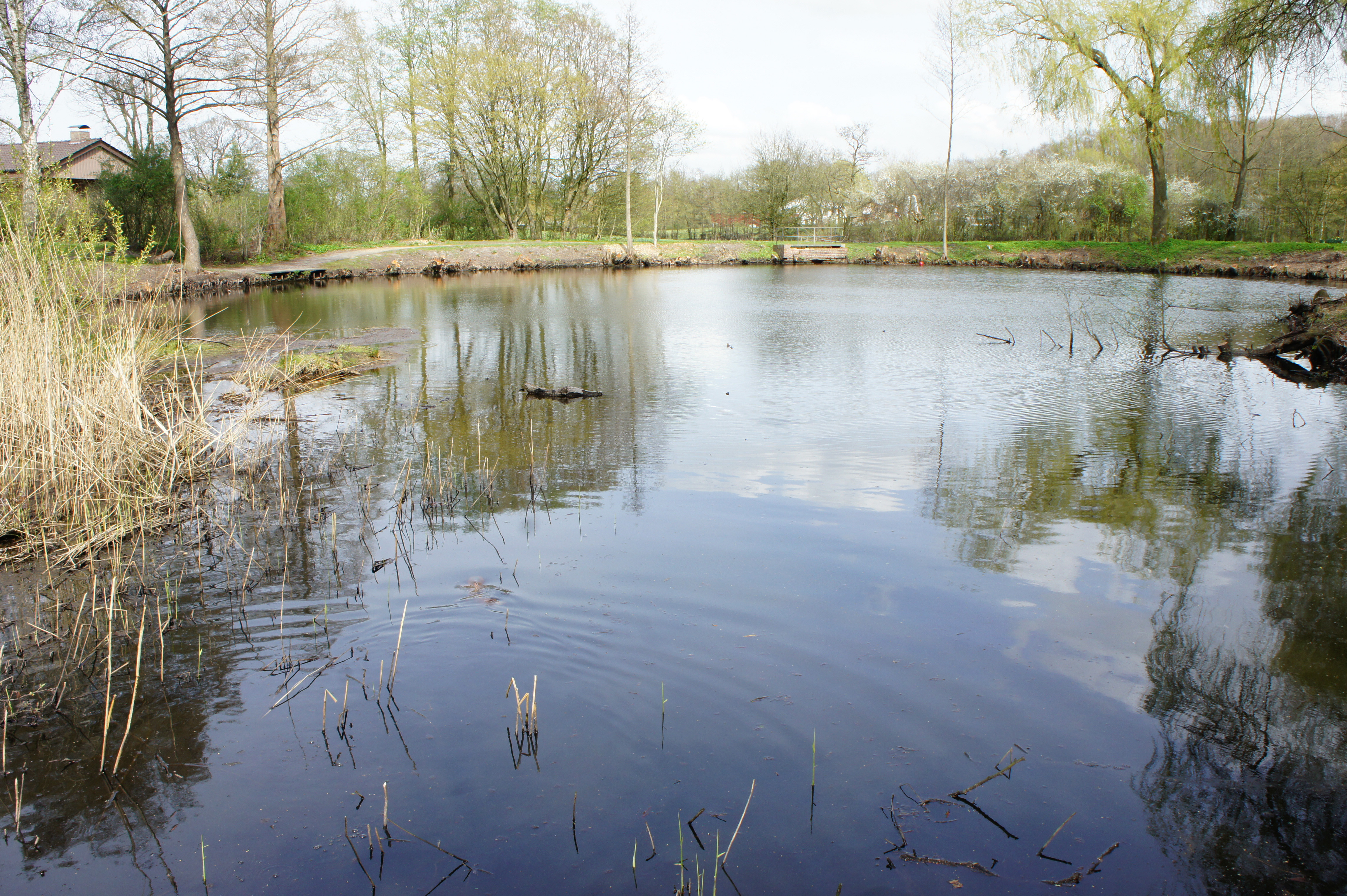 The Ganterteich in Ganderkesee